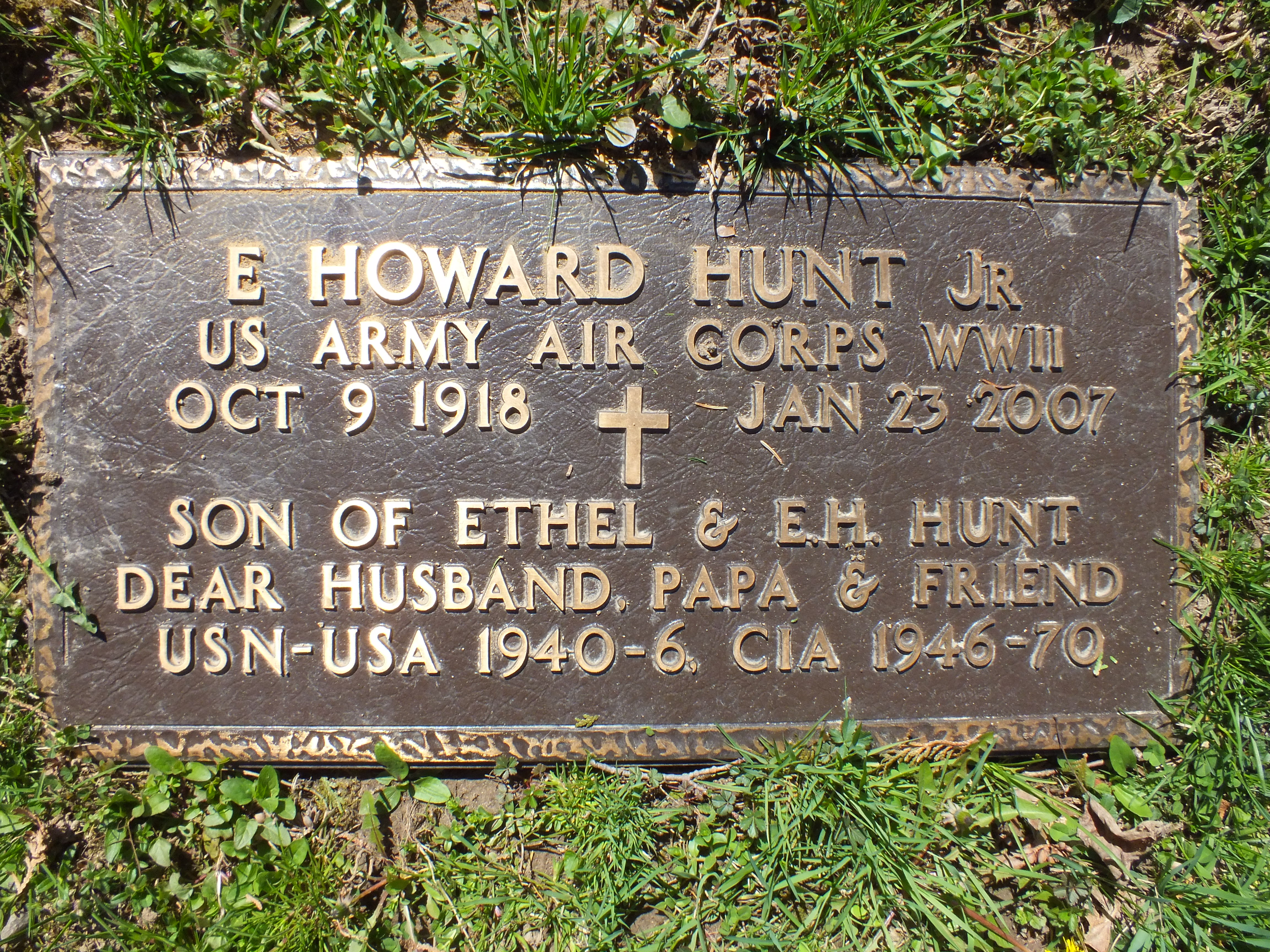 Grave marker of author and CIA officer E. Howard Hunt, Prospect Cemetery, Hamburg, NY